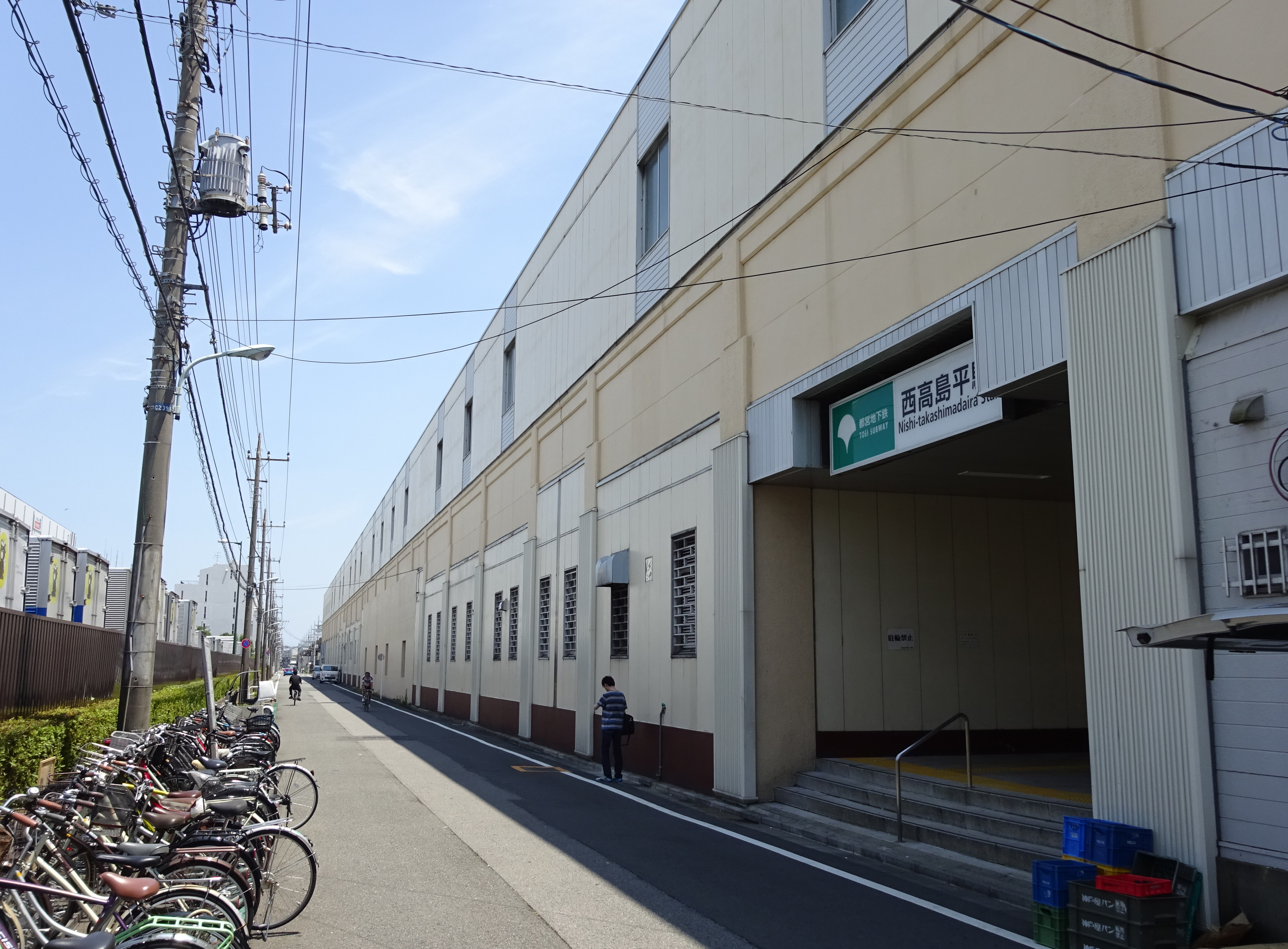 North Entrance of Nishi-Takashimadaira Station